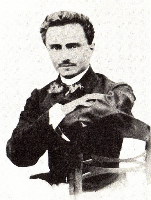 Ippolito Nievo (1831 - 1861), an Italian writer.